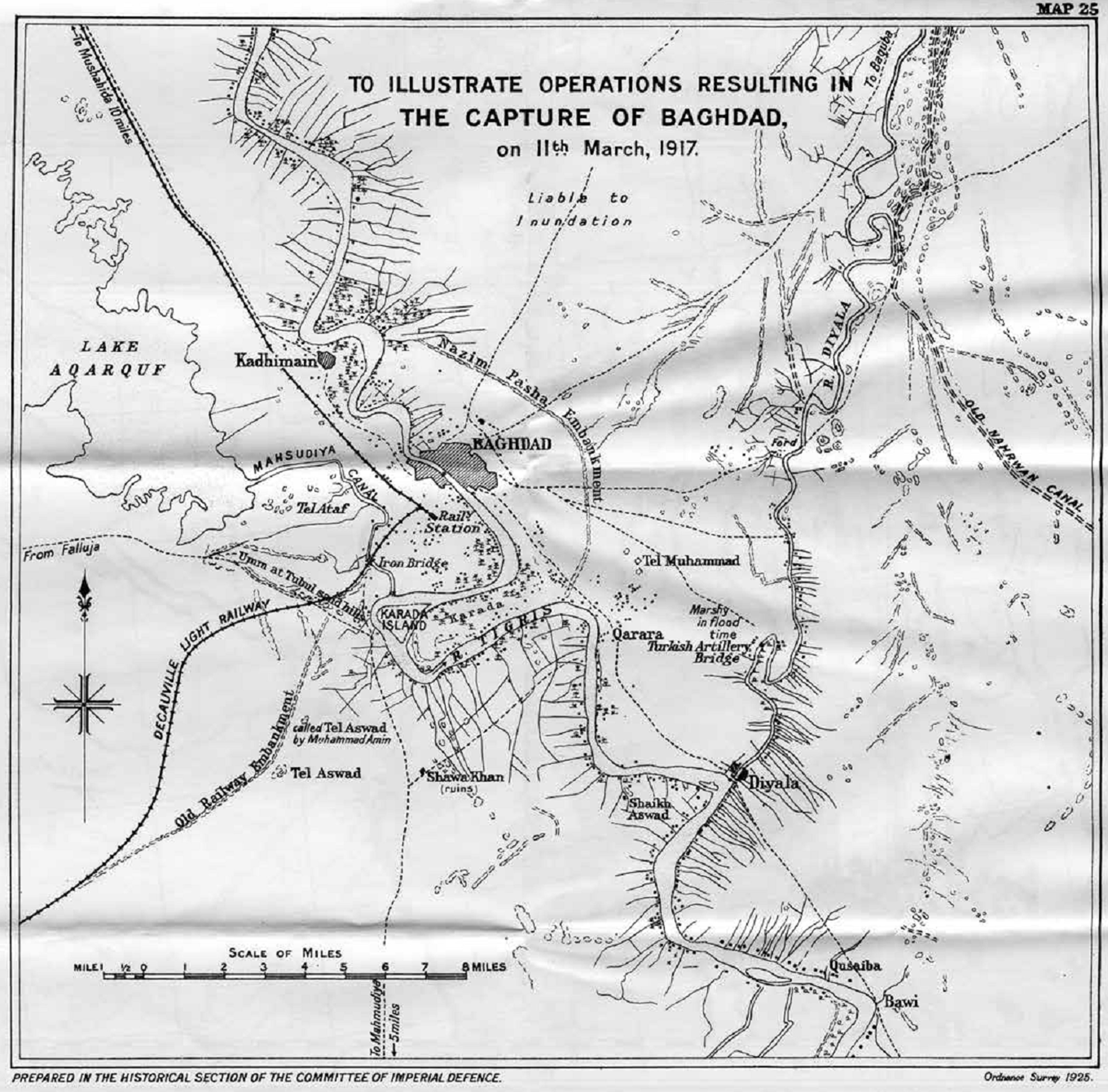 General Maude’s Mesopotamia Campaign: To illustrate operations resulting in the capture of Baghdad on 11th March 1917. Prepared in the Historical Section of hte Committee of Imperial Defence. Ordnance Survey, 1925.